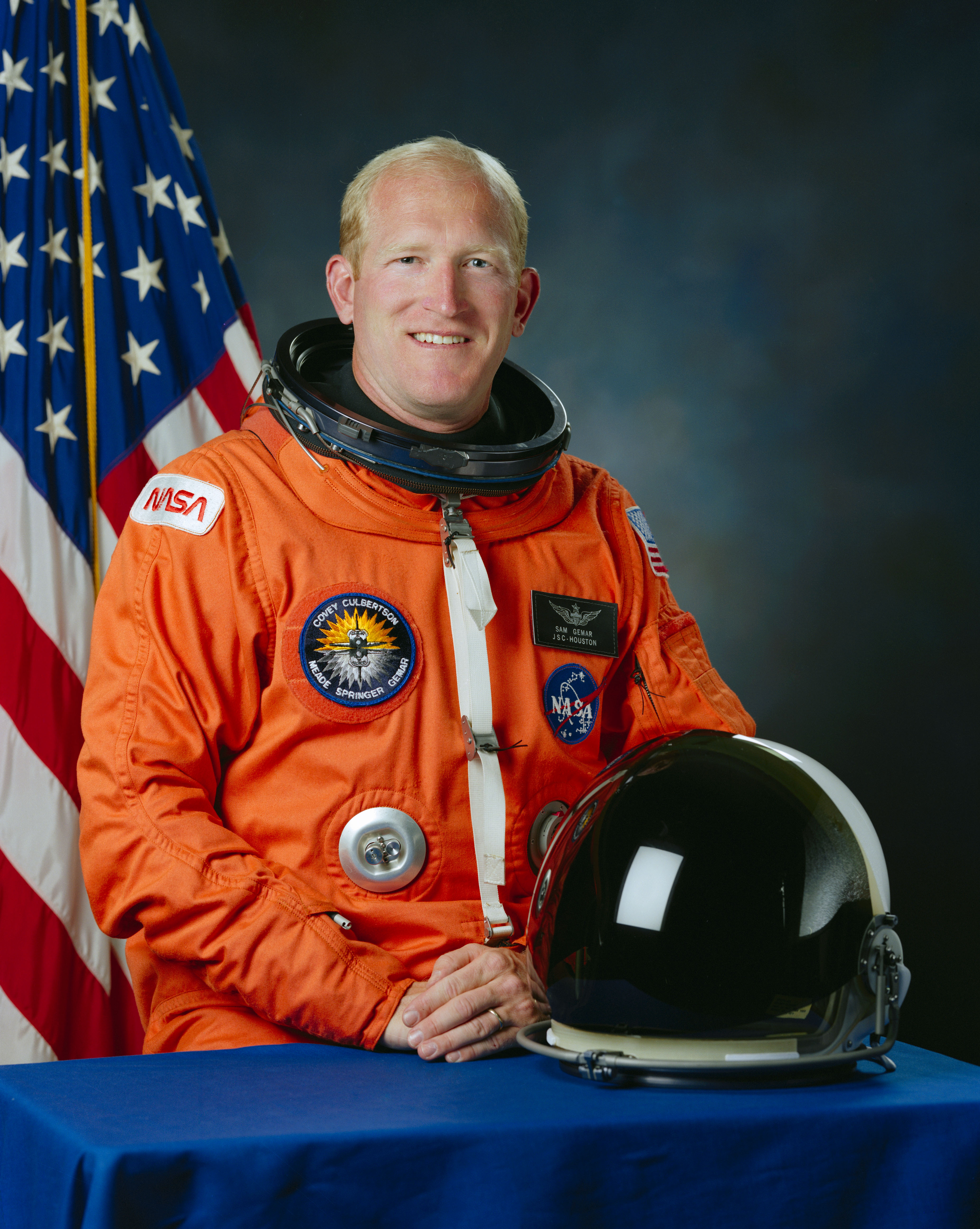 NASA Astronaut Charles D. (nickname Sam) Gemar